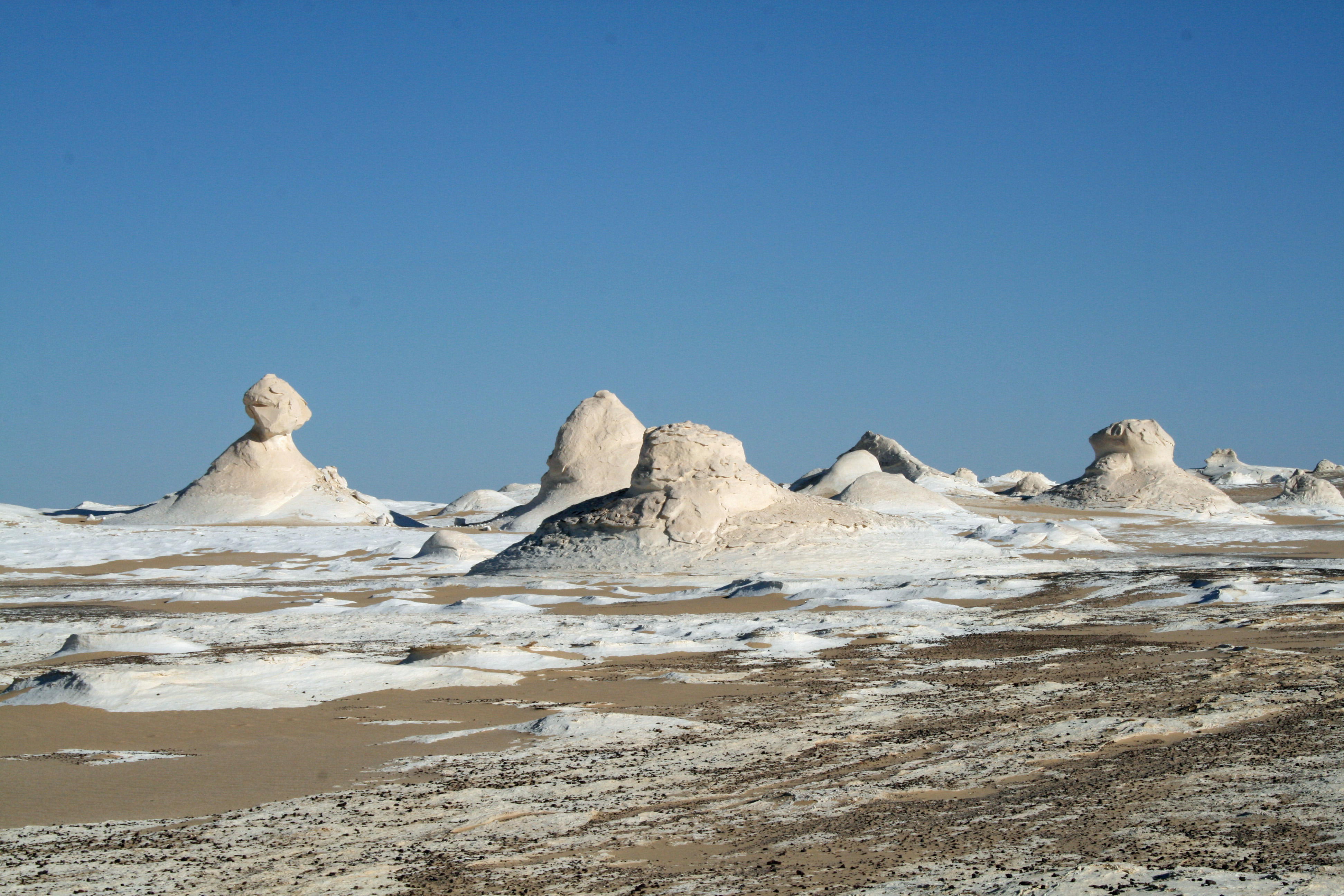 White Desert, western Egypt.